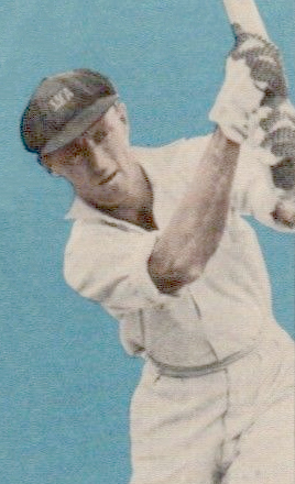 Cereal Foods Leading Cricketers - Reginald Craig